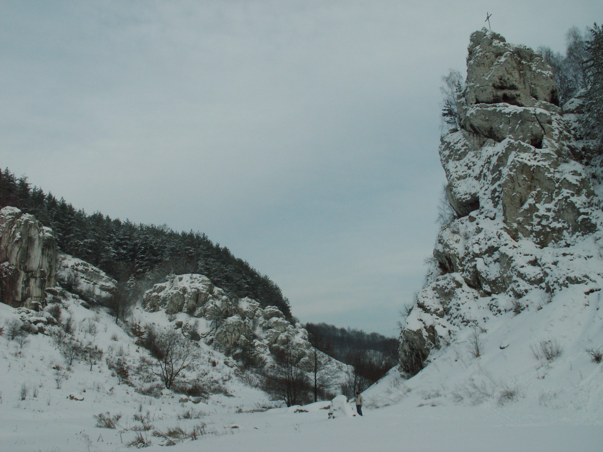 author: macieias (at) interia (dot) pl